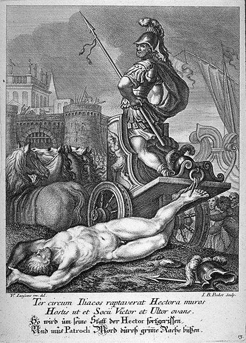 Hector's corpse, Engraving by Johann Balthasar Probst (1673 - 1748) Fine Arts Museum of San Francisco.